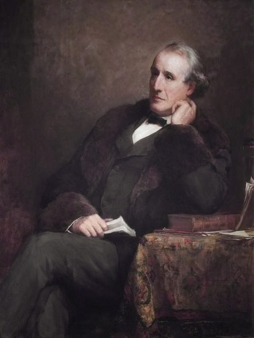 William Scovell Savory (1826–1895), Surgeon at St Bartholomew's Hospital oil on canvas, 127 x 112 cm 1893